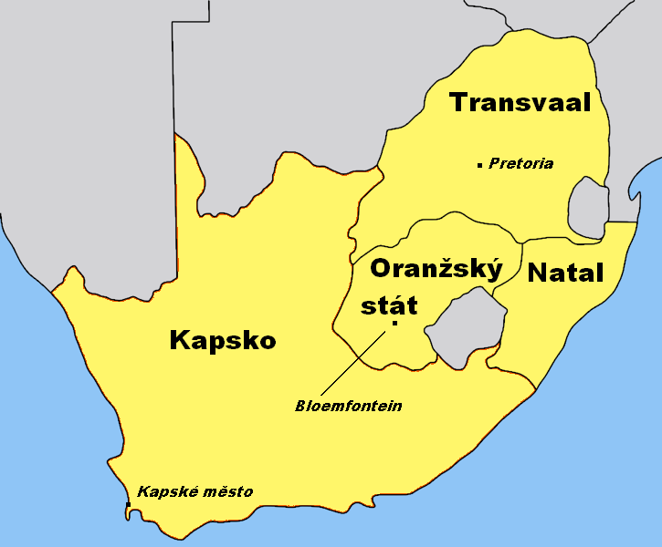 Province of sounth africa union